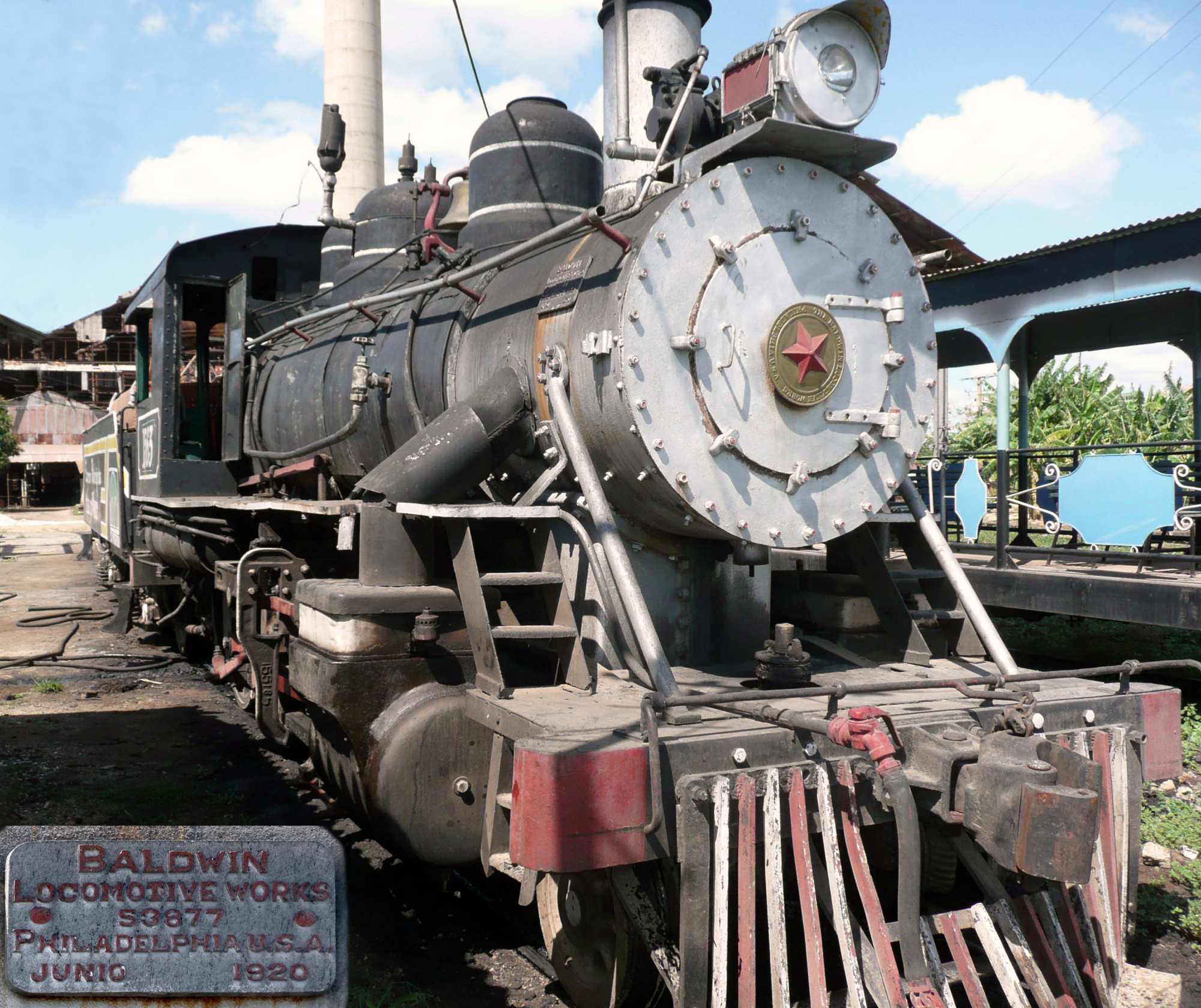 Baldwin engine, 53877, 2-6-0. Cuba, Moron, Central Patria. Built June 1920